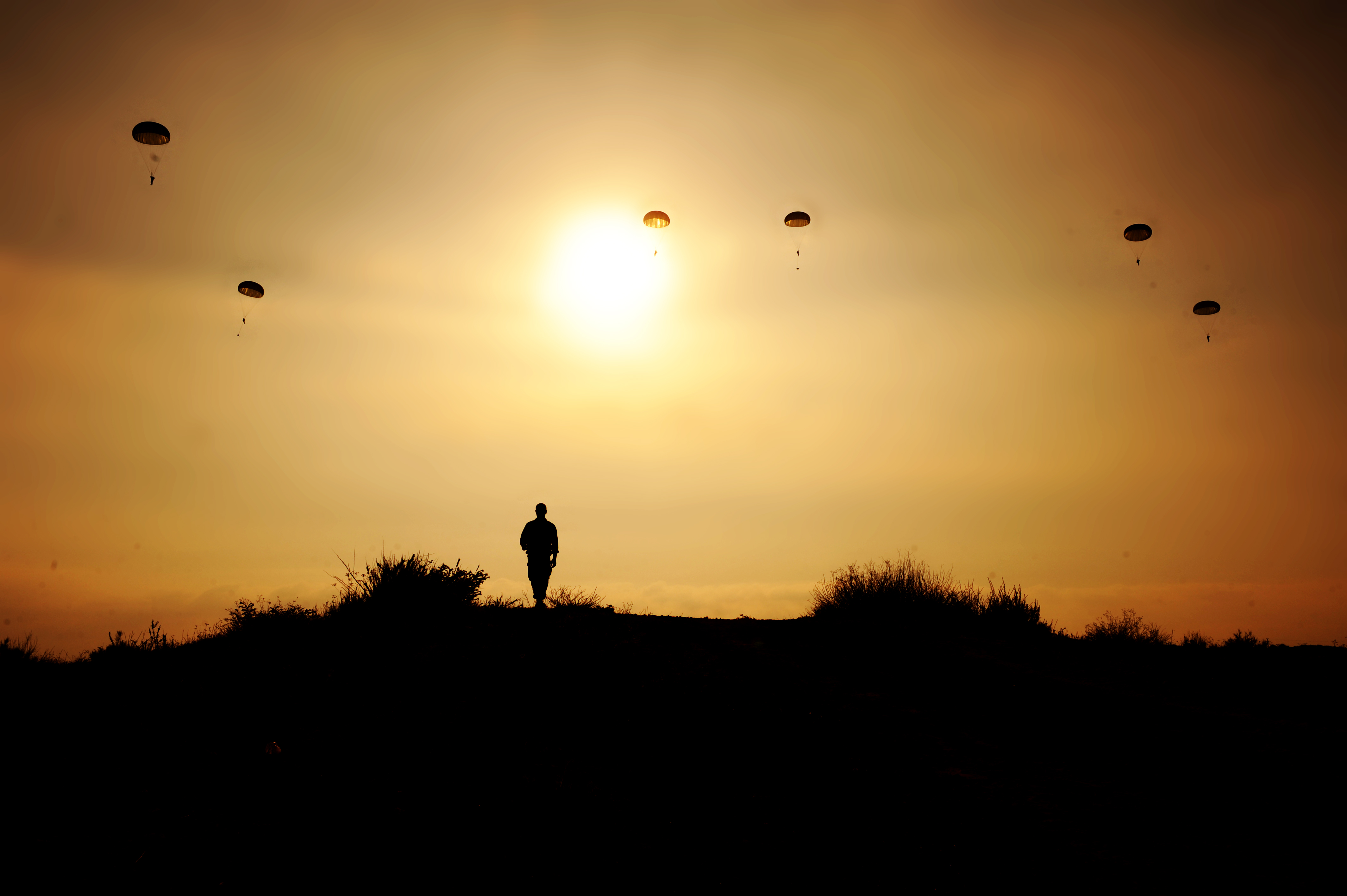 May 3, 2010 Watching his fellow paratroopers jumping as the sun sets. The Paratroopers Brigade is a unit of paratroopers within the Israel Defense Forces which forms a major part of the Infantry Corps.